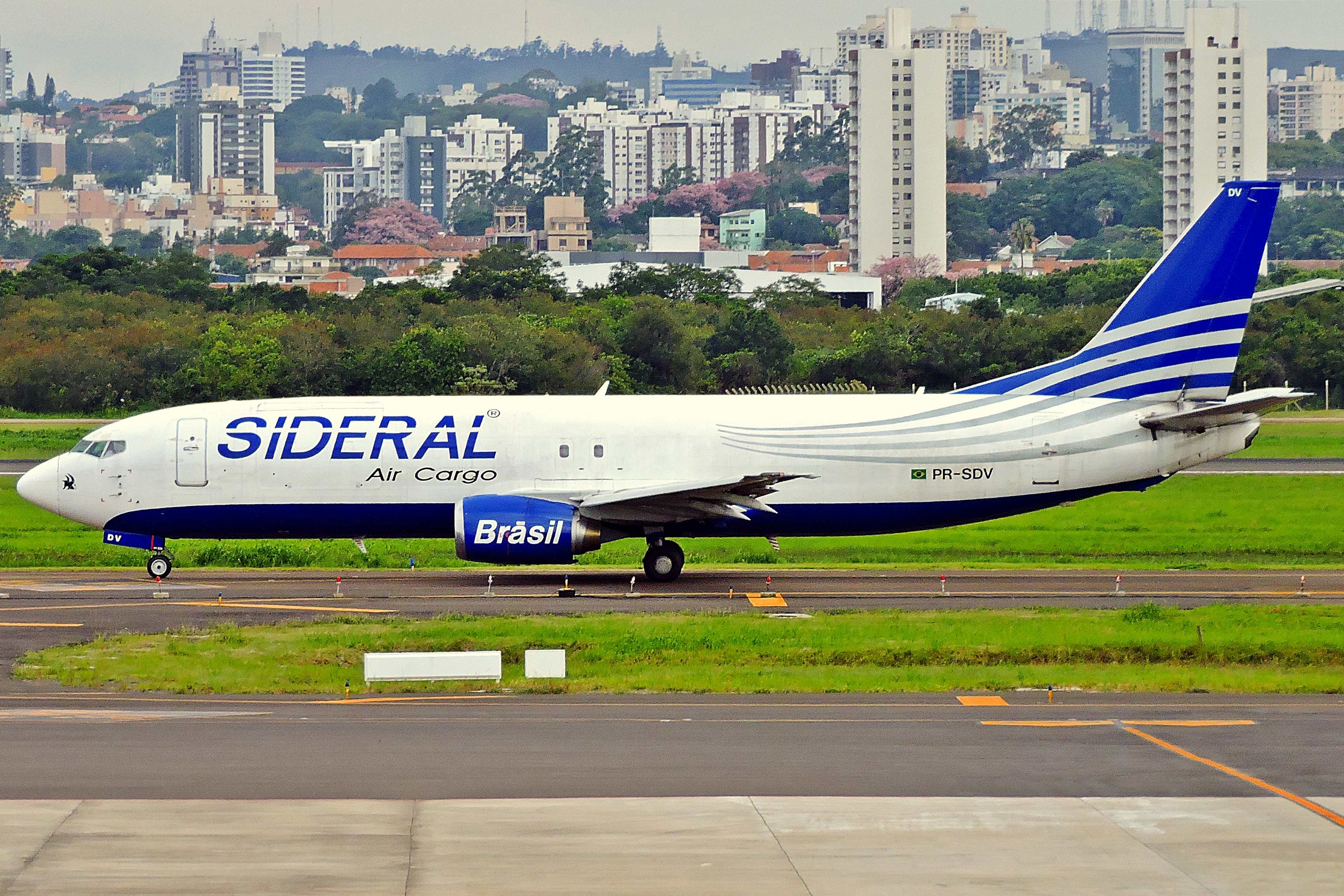 737-400F SIDERAL CARGO SBPA